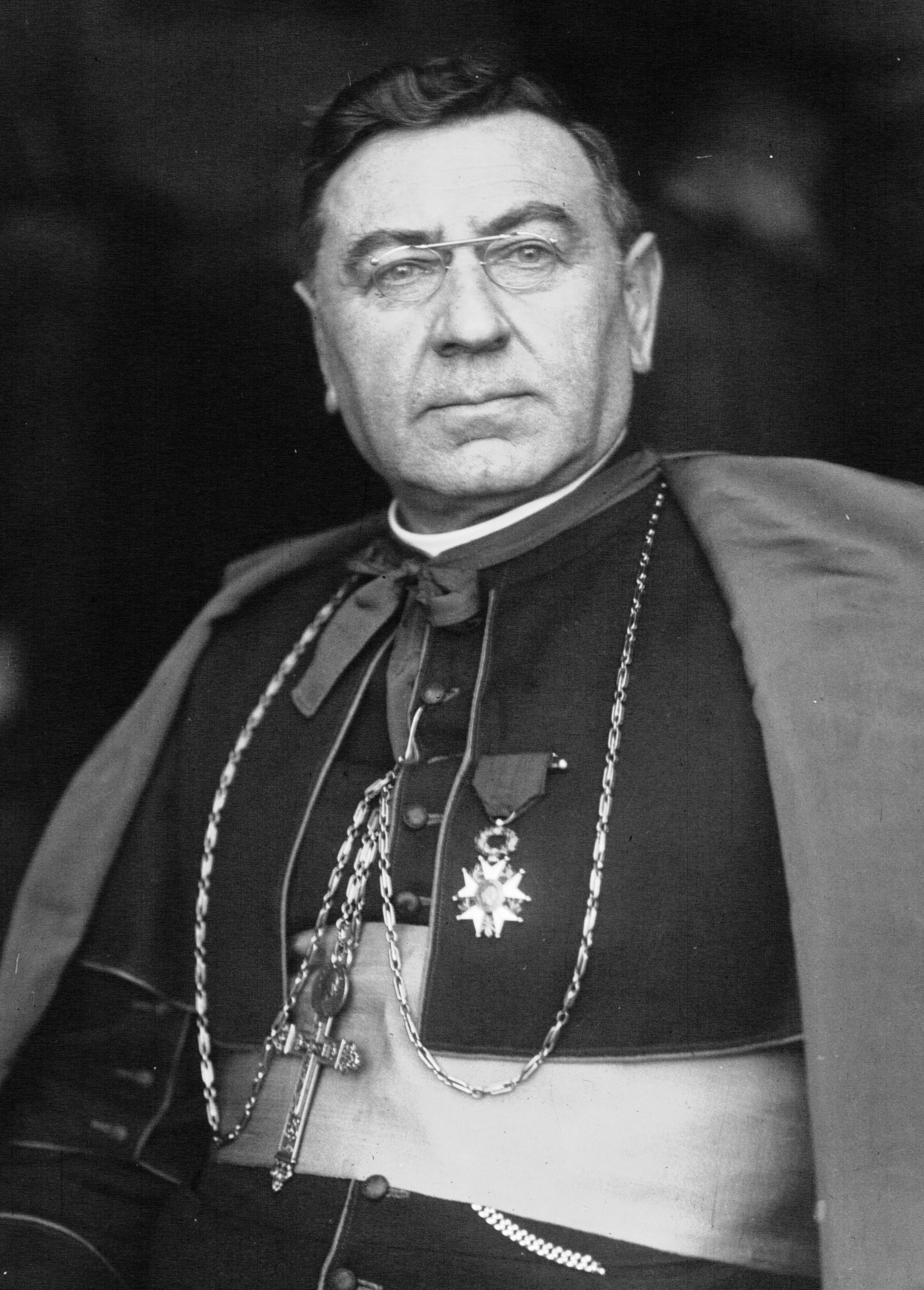 Jean-Arthur Chollet, archbishop of Cambrai